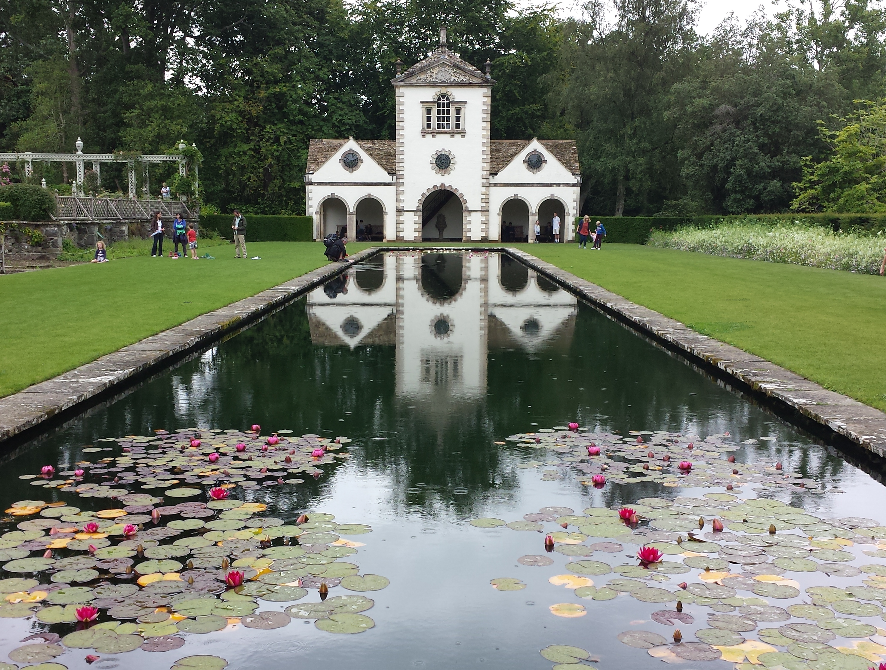 Bodnant Garden Pin Mill or summer house, Tal-y-cafn, Wales.